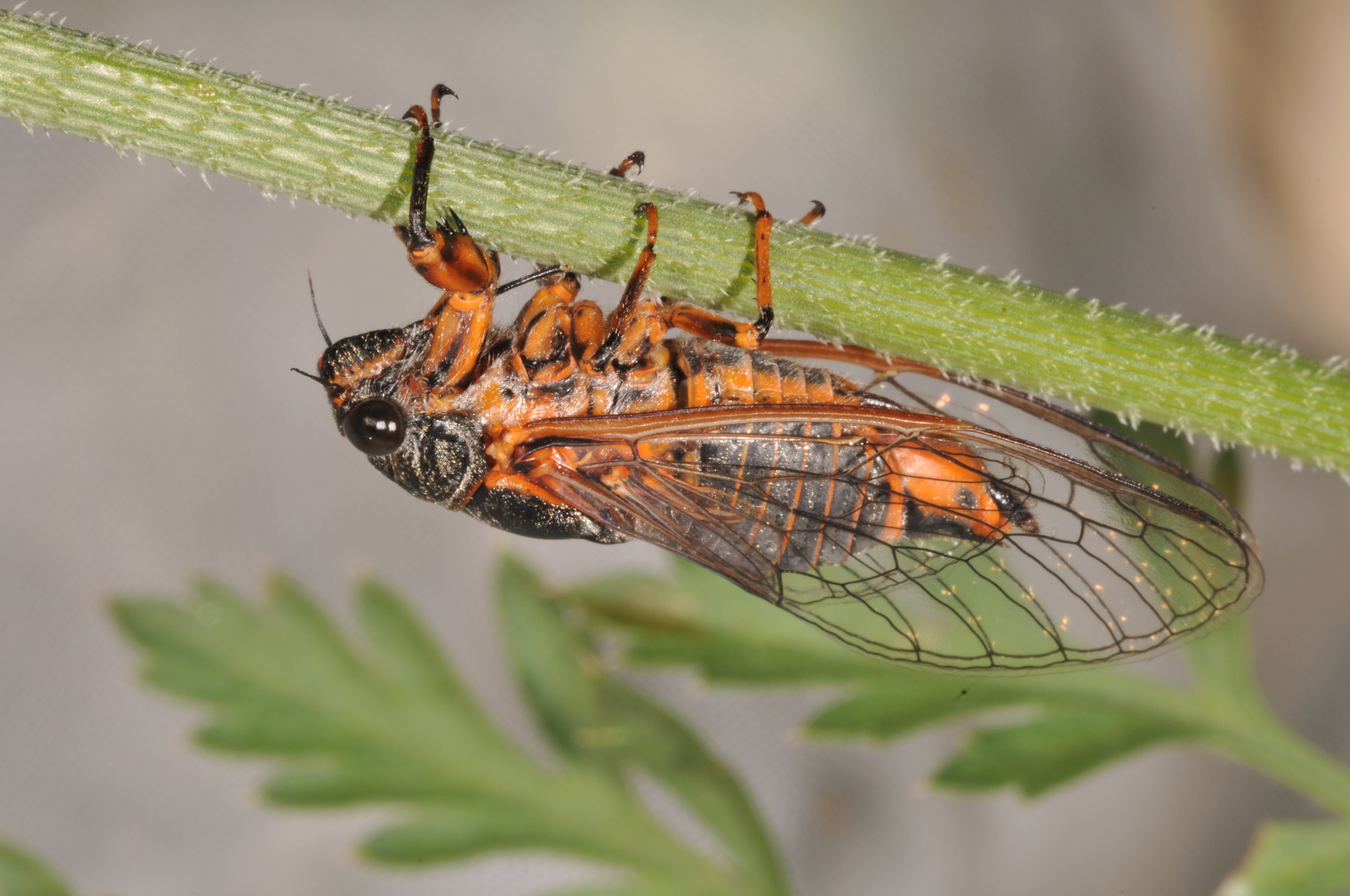 Cicadetta montana, Croatia, Istria, Brseč 15 km south Lovran, 45°10`23,80``N 14°13`37,25``E